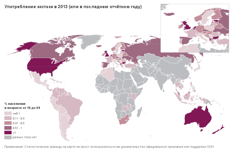 UNODC map showing the use of Ecstasy by country in 2013 for the global population aged 15-64 Russian language